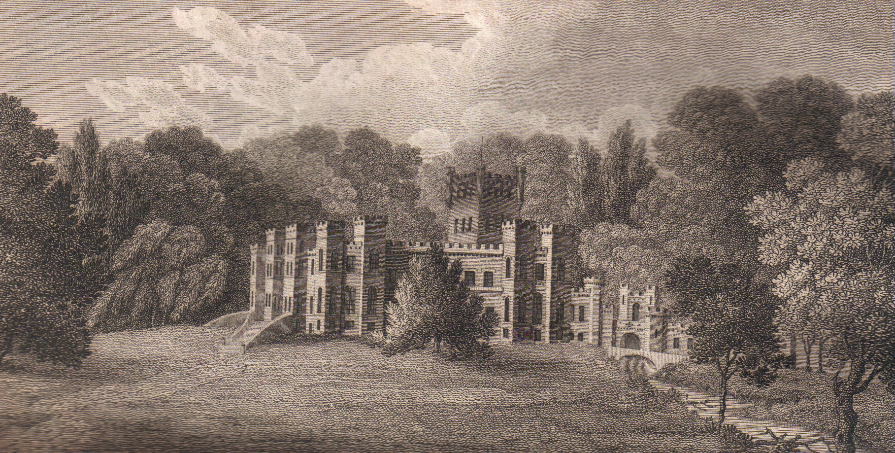 Loudoun Castle, circa 1811. Ayrshire, Scotland.